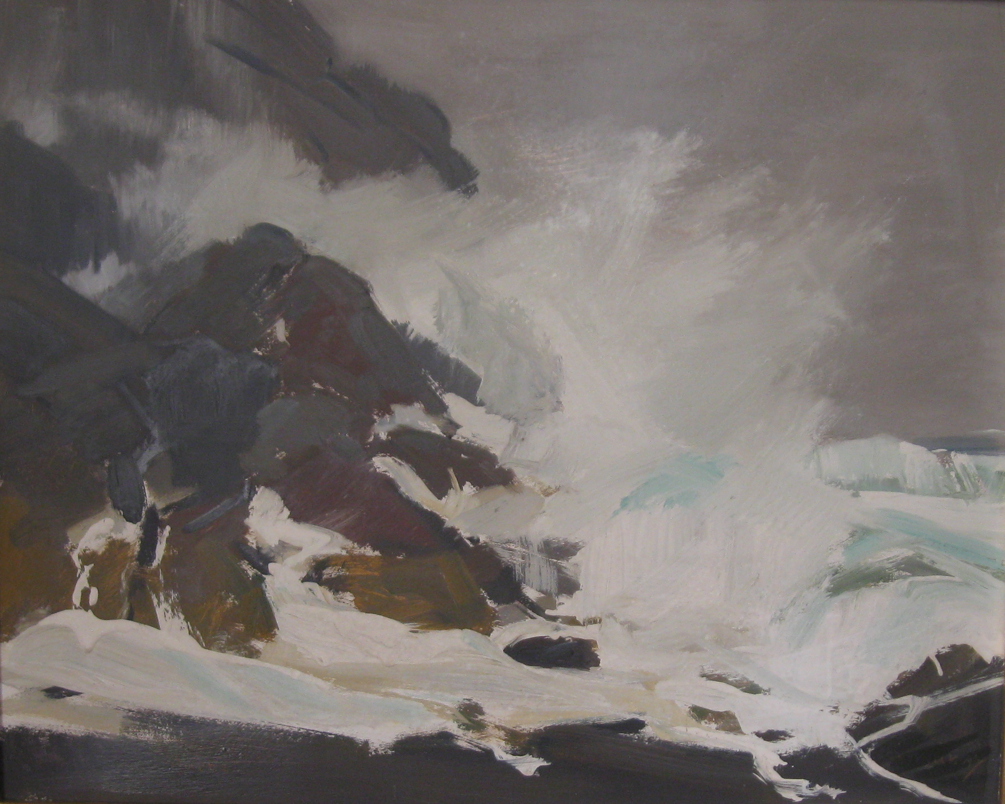 Monhegan Rocks, artist: Jay Hall Connaway (1893-1970) (signed, with "Me. 1952") oil on paper 20" by 16" private collection, Virginia